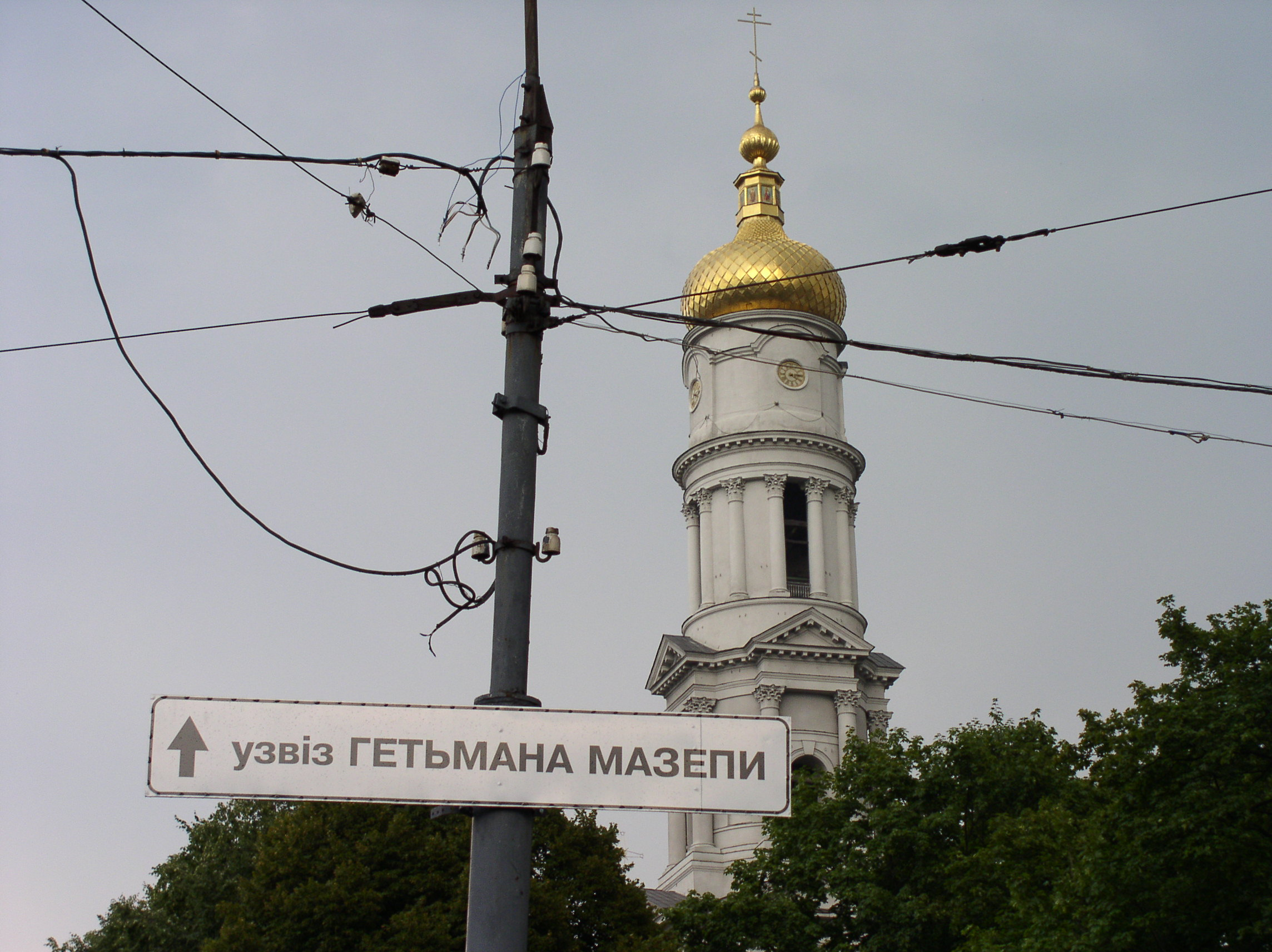 Uzviz Mazepa v Kharkiv